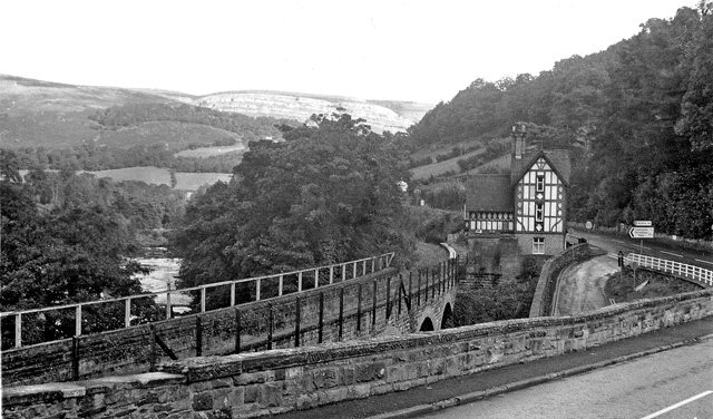 Berwyn Station. View eastwards, towards Llangollen and Ruabon; ex-GWR Ruabon - Llangollen - Bala Junction - Dolgelley line. The station - by then a Halt - was closed on 14/12/64. The line was closed west of Bala on 18/1/65, Llangollen - Bala on 1/1/68, Ruabon - Llangollen 1/4/68. However, commencing 13/9/75, the line has been restored by the Llangollen (Heritage) Railway westwards from Llangollen, reaching Berwyn in 10/85, Glyndyfrydwy 17/4/92, Carrog 2/5/96 and will soon reach Corwen.